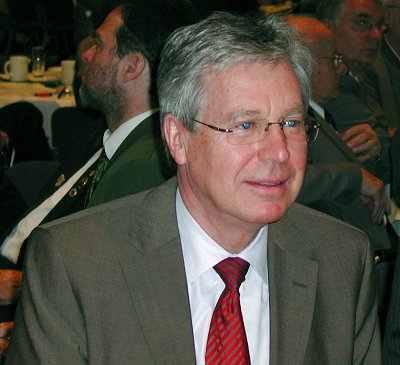 Jens Böhrnsen (SPD), President of the German Bundesrat